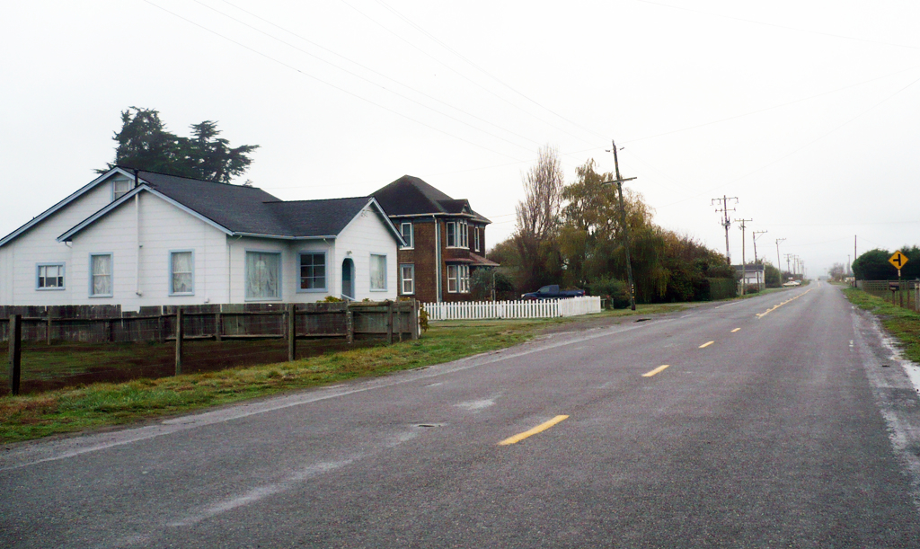 Several houses occupy the site of the former town of Waddington, in Humboldt County, California. Waddington was a cross-roads village between Fernbridge and Ferndale as well as between Ferndale and Grizzly Bluff. This view is taken looking east along Grizzly Bluff Road.